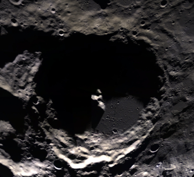 Crater Amundsen near the lunar South Pole. Cropped version of computer generated image from PDS MAP-A-PLANET.